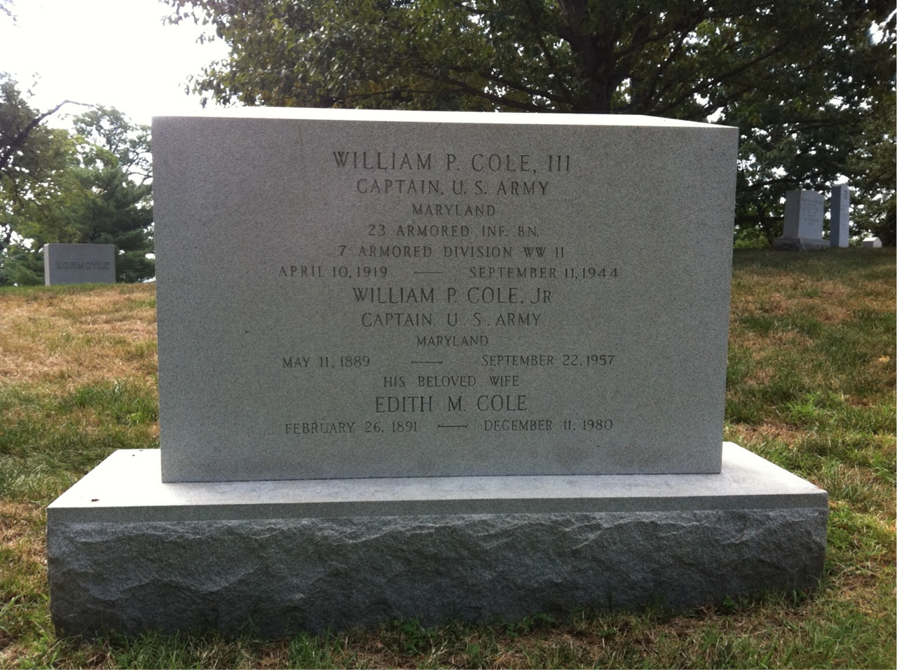 Grave of William Purington Cole at Arlington National Cemetery